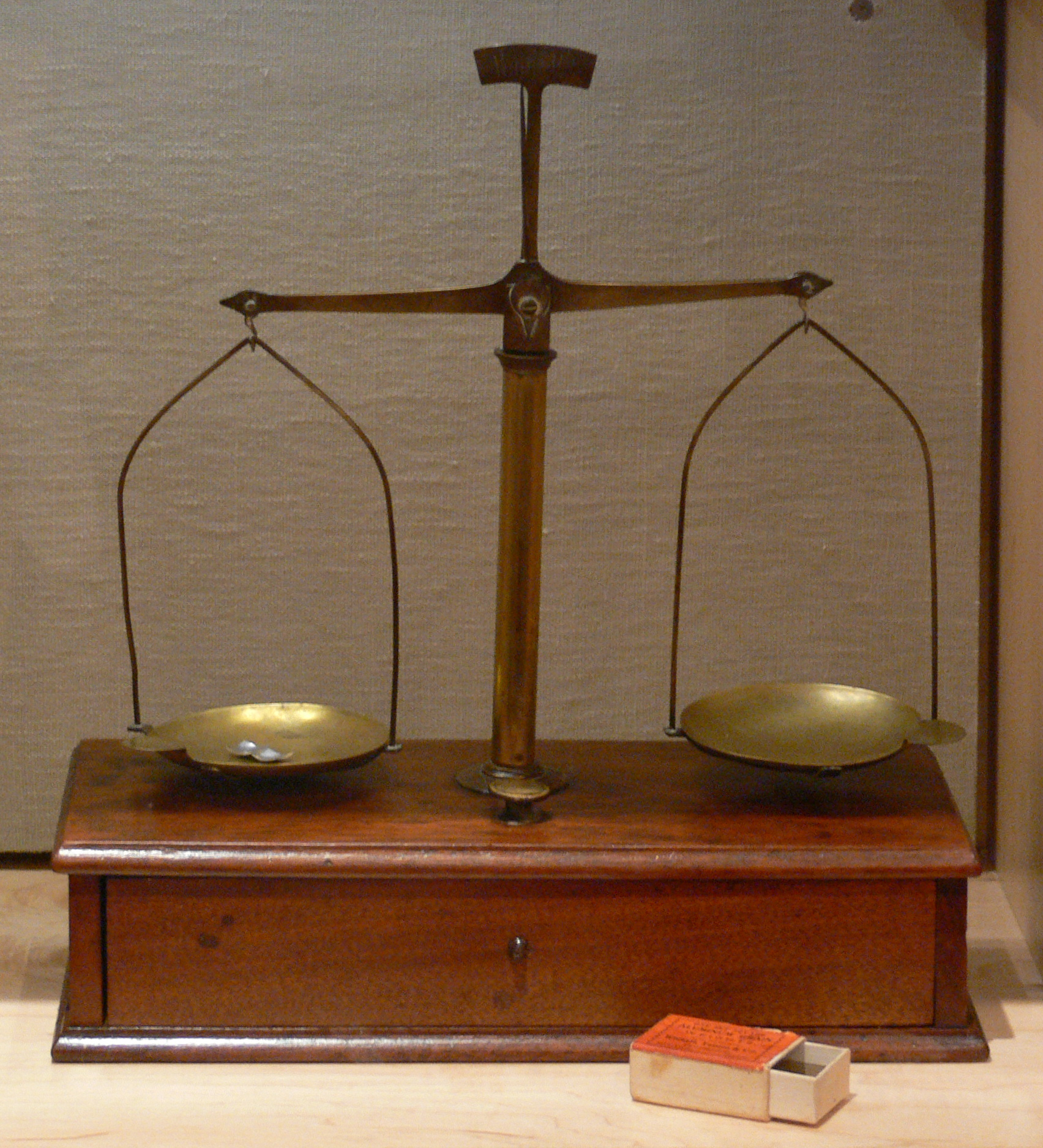 Scales used by Mother Marianne Cope (of the Sisters of Saint Francis, Syracuse, New York) and sisters to measure medicine, Kalaupapa, Hawaii, late 1880s The Women's Museum, Dallas, Texas (special exhibit Women & Spirit: Catholic Sisters in America, 2009–2010)